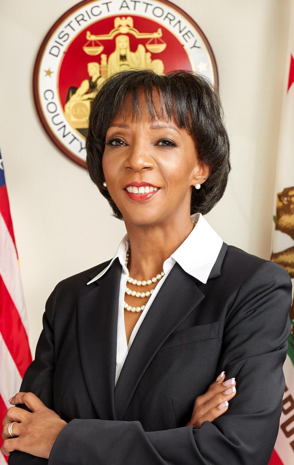 Official Los Angeles County District Attorney portrait of Jackie Lacey.